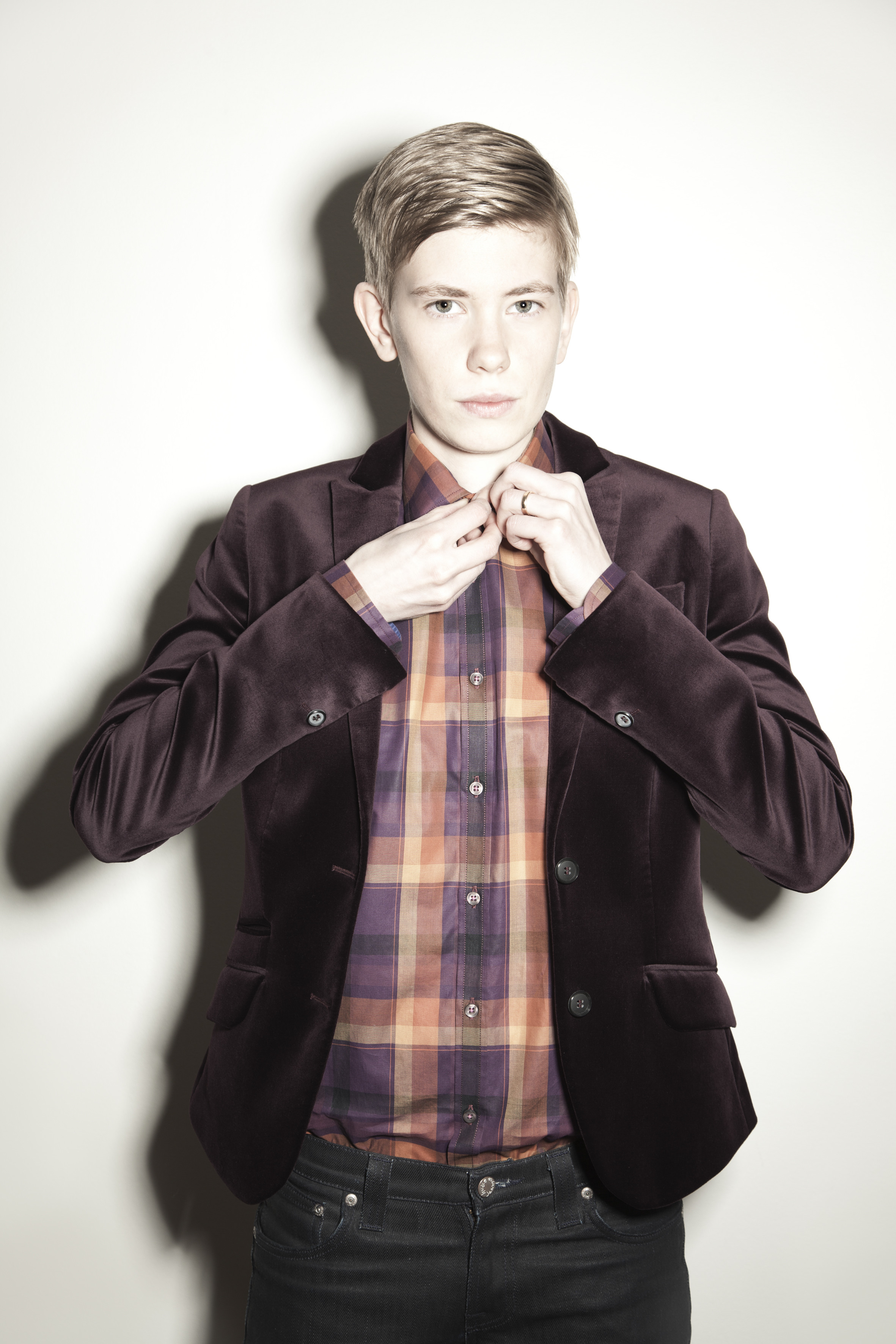 Moa Svan 2011.